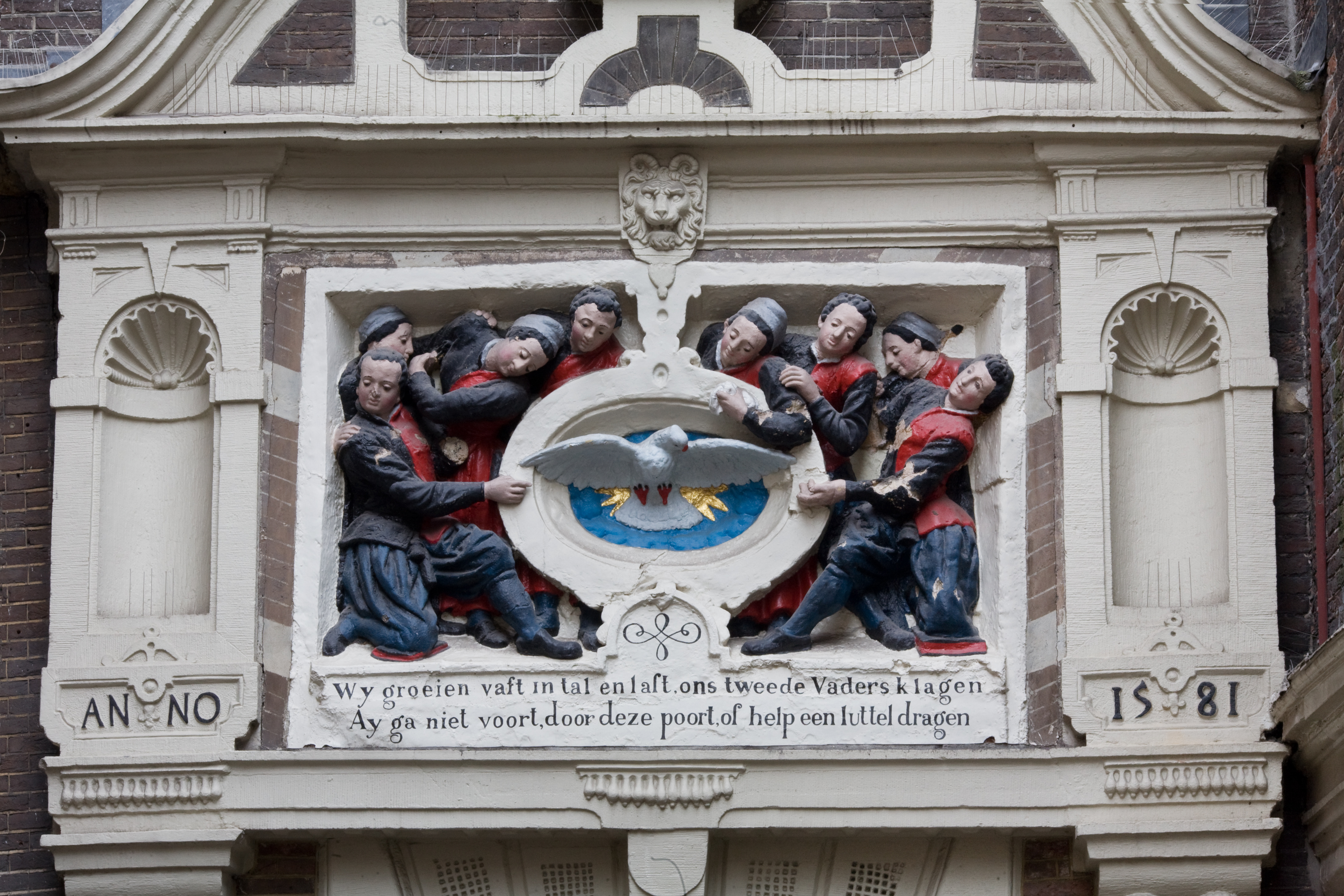 The relief of Joost Jansz Bilhamer above the orphanage gate in Kalverstraat grouped with orphans at the Orphanage of the emblem: a white dove, the symbol of the Holy Spirit..Amsterdam, The Netherlands